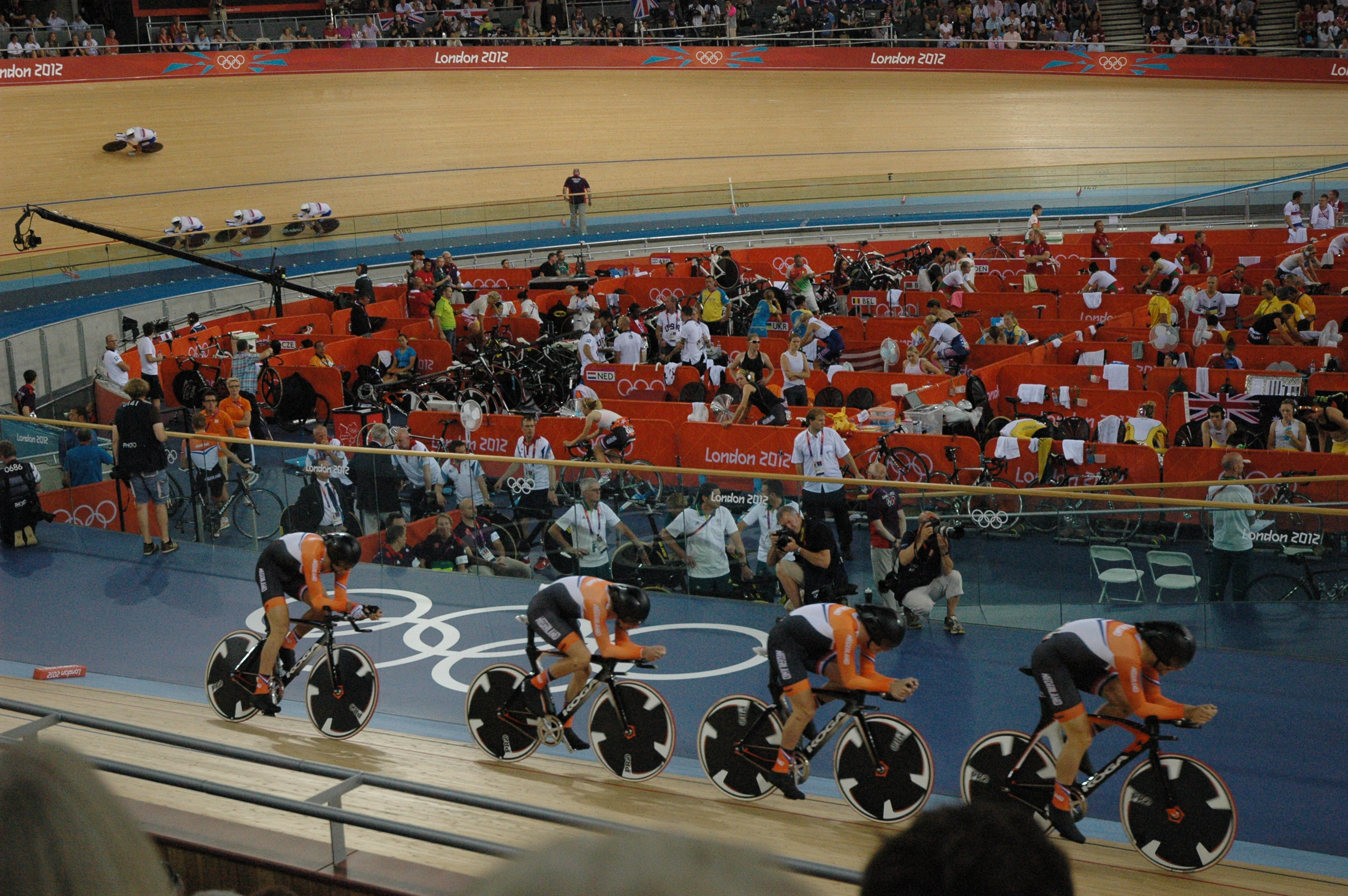 Cycling at the 2012 Summer Olympics – Men's team pursuit. The Dutch team (CT002, 3 August)